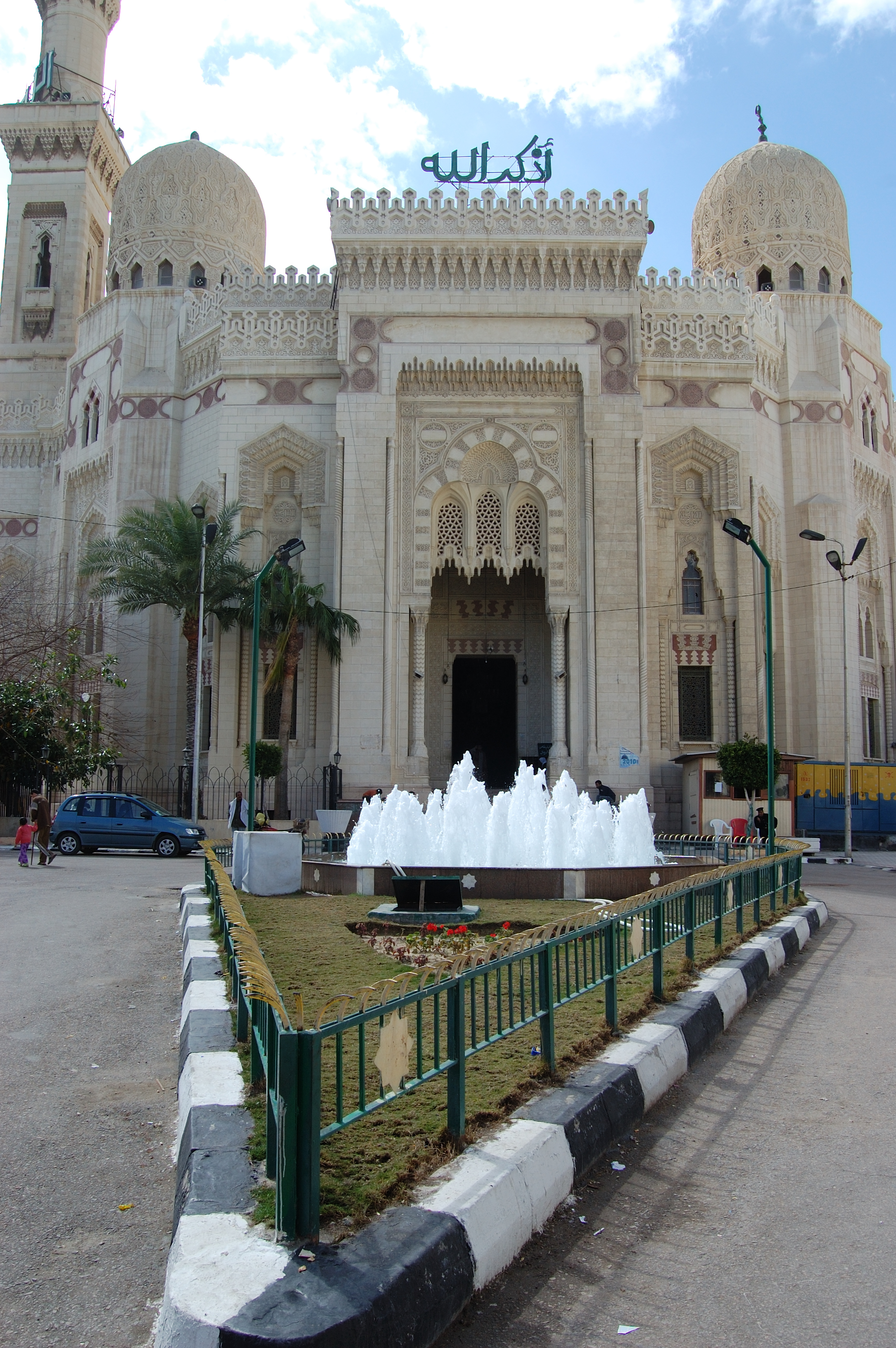 Front view of the Abu al-Abbas al-Mursi Mosque in Alexanderia, Egypt. Founded 1307 and rebuilt many times the present building dates from 1775. Major renovations were made in 1943. Area: 3,000 sq m, Outer walls: 23m high, Interior ceilings: 17.2m high, Minaret: 73m high, Minbar: 6.35m high. Coordinates=31.205644° N, 29.882158° E